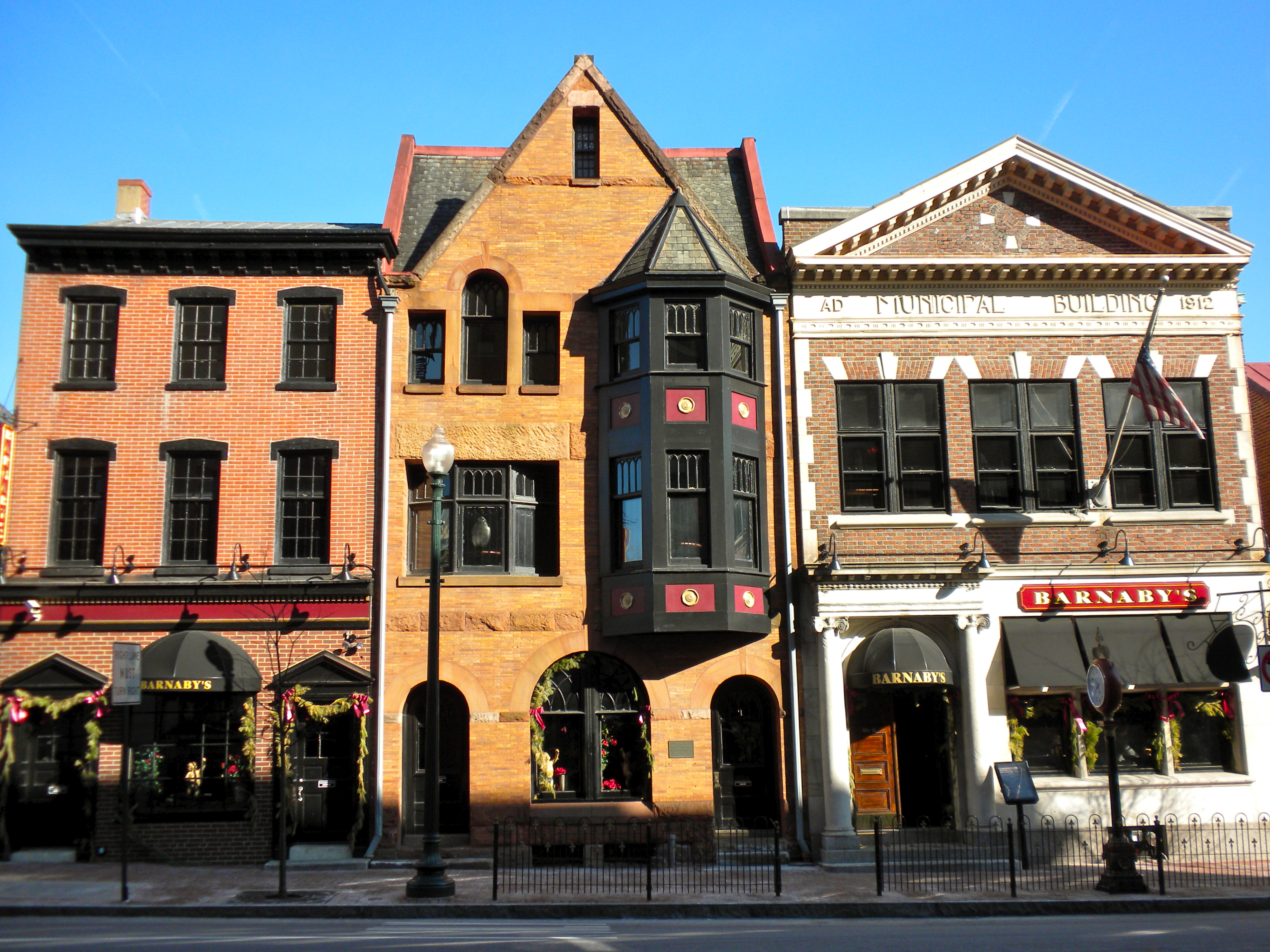 Buckwalter building (center) 11-13 South High Street, West Chester, PA. On NRHP. I donate this photo to the public domain